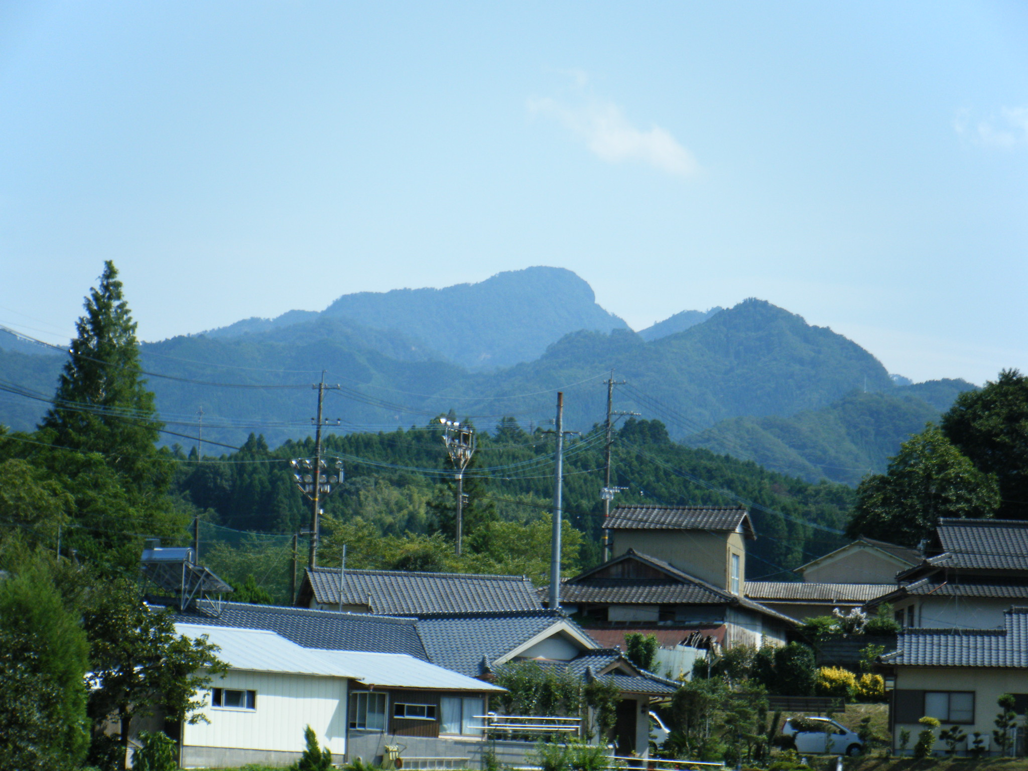 Mount Katamuki's summit as seen fom the NNW.